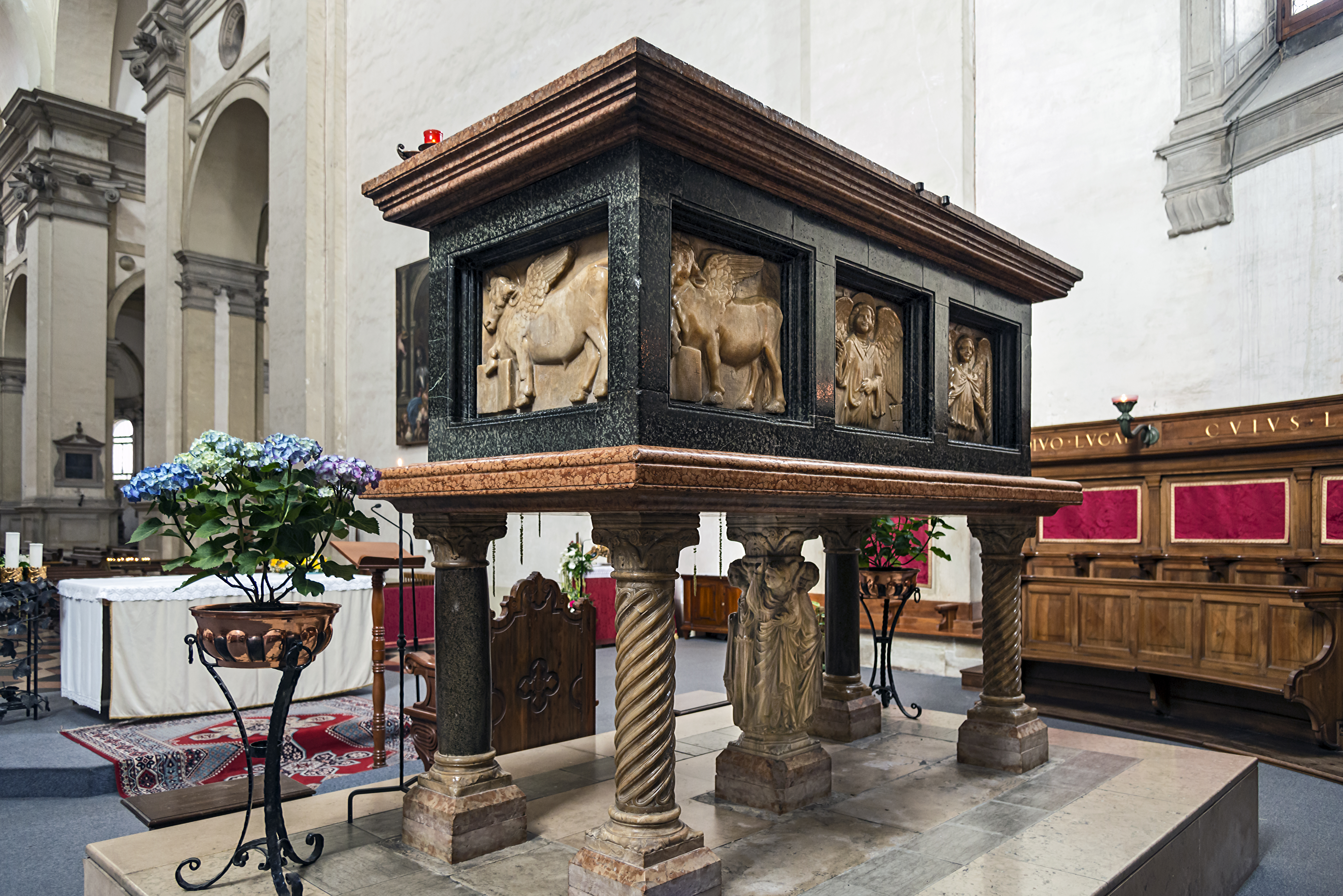 Churche Saint Justina of Padua in Italy. Chapel of Luke the Evangelist. Work of the Pisano-Venetian school of 1313, commissioned by the Abbot Gualpertino Mussato and originally erected in the old Gothic chapel in 1562. The monument is made of serpentine and marble of Verona. It is enriched with eight alabaster panels carved in bas-relief depicting angels and symbols related to the saint. The whole rests on two granite columns, two alabaster spiral columns and the center is placed on a support in Greek marble, representing caryatid angels, supporting the whole.